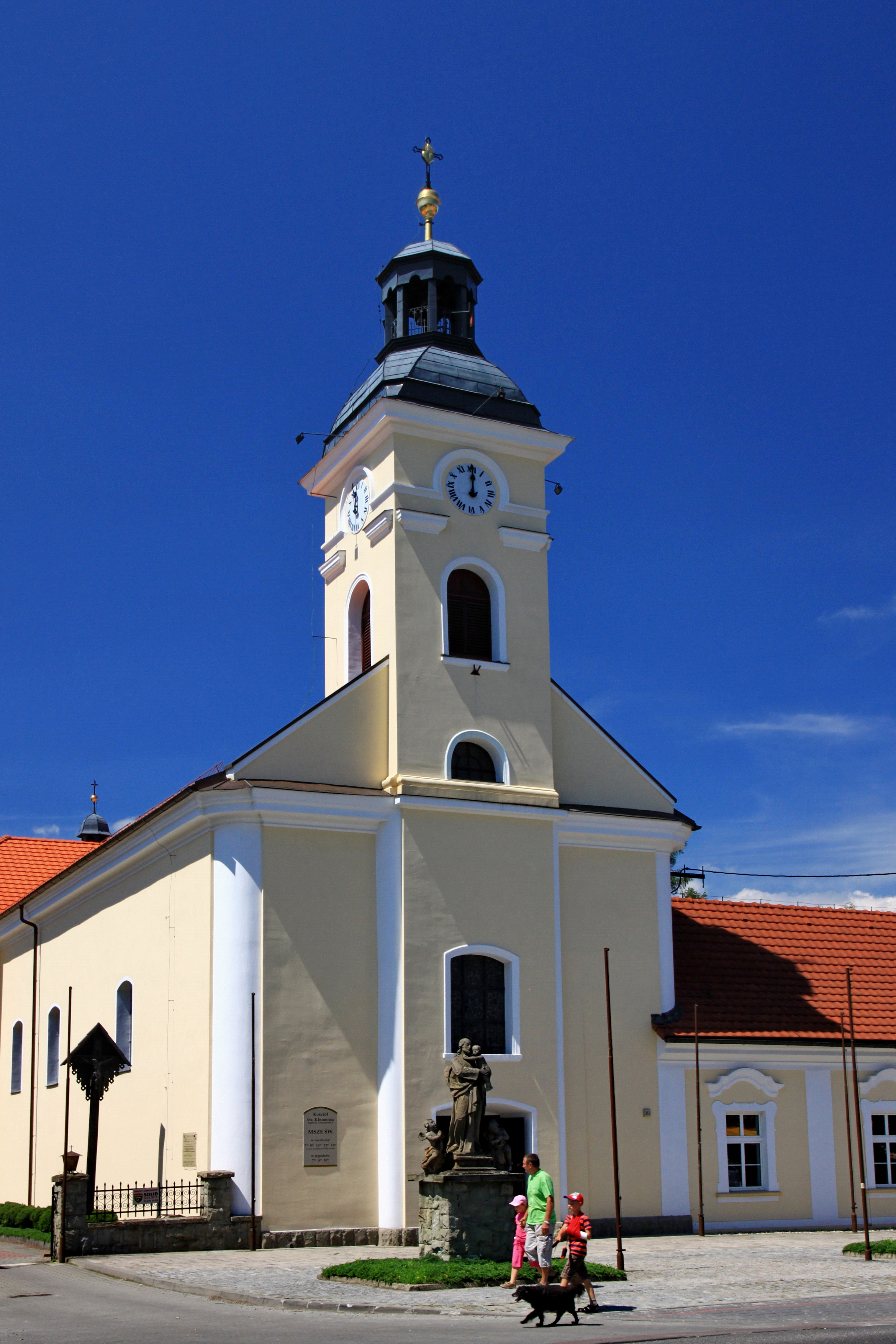 Ustroń, St. Klemens parish church, build in 1787, 1835-1848